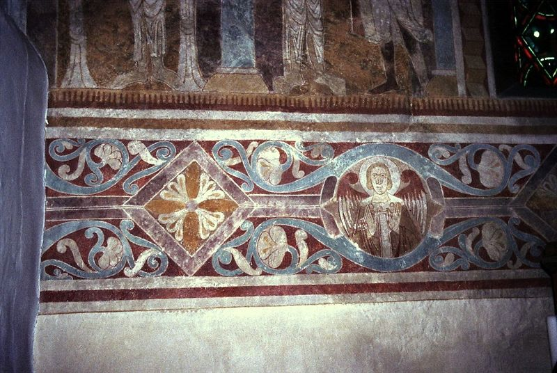 Give Kirke (church)